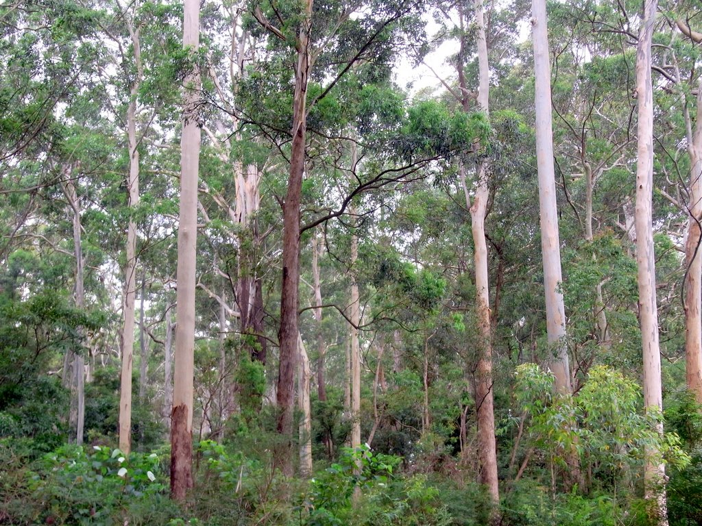 Sheldon Forest, Pymble, NSW Australia. Smooth barked trees are Eucalyptus saligna, most of the canopy is E.pilularis.The tallest tree measured was a Blackbutt at 45 metres. Average canopy height 35 metres.